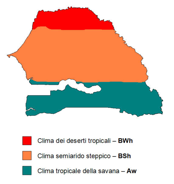 Climate of Senegal (Köppen climate classification). Derivative work from this image.